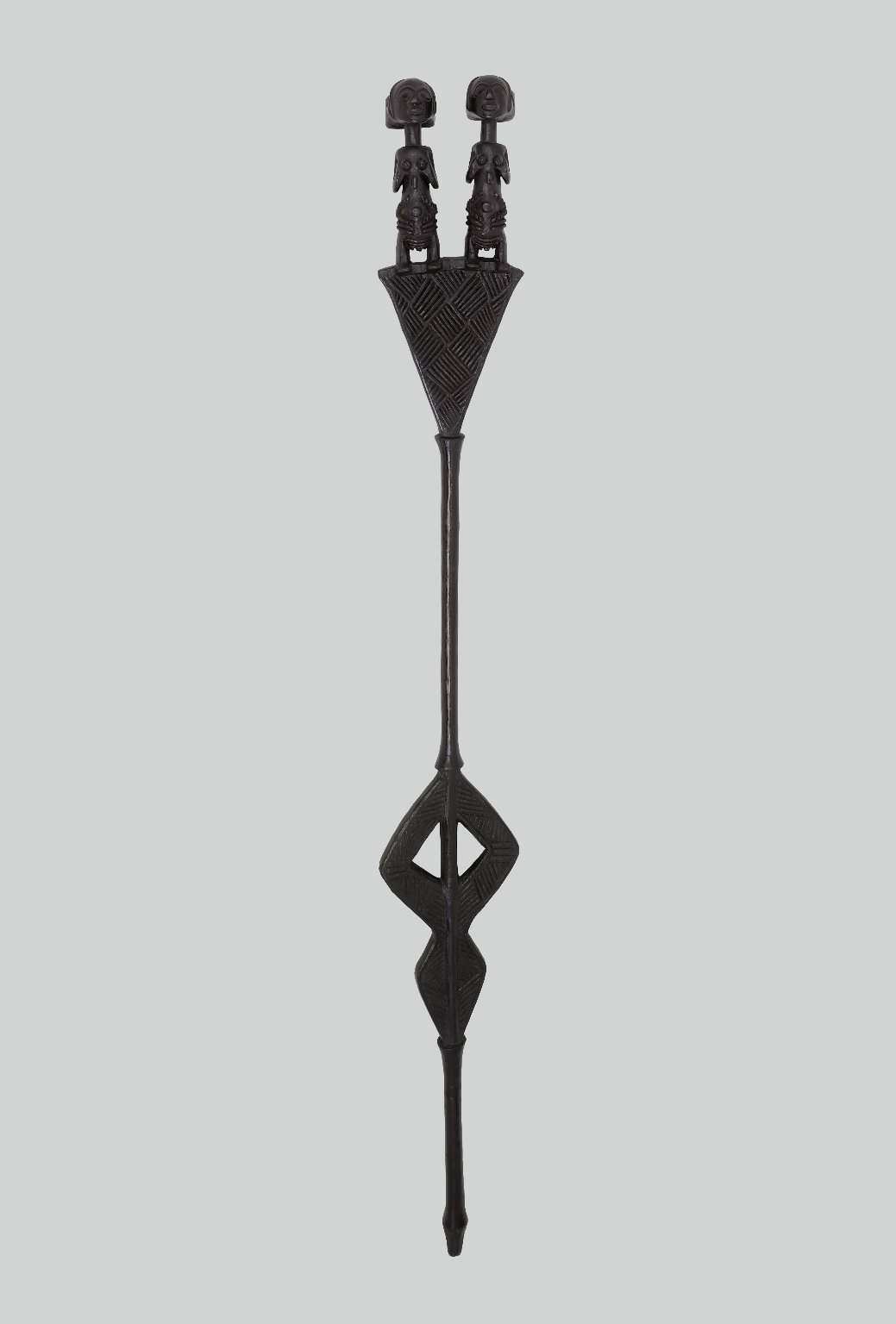 Ceremonial wooden staff with triangle shape and two female figures at top. The figures clutch their breasts and have scarification marks indicated on their abdomens. The triangle as well as the diamond shapes on the other end are decorated with geometric patterns. Condition is poor. There are two minor splits at the tip of the shaft measuring 1 3/4 in. and 2 1/2 in. long. There are several minor chips on the backs of the figures. There is a chip on the proper left corner of the large triangle near the top. The surface overall is coated with a substance that is shiny, resinous, and slightly sticky.